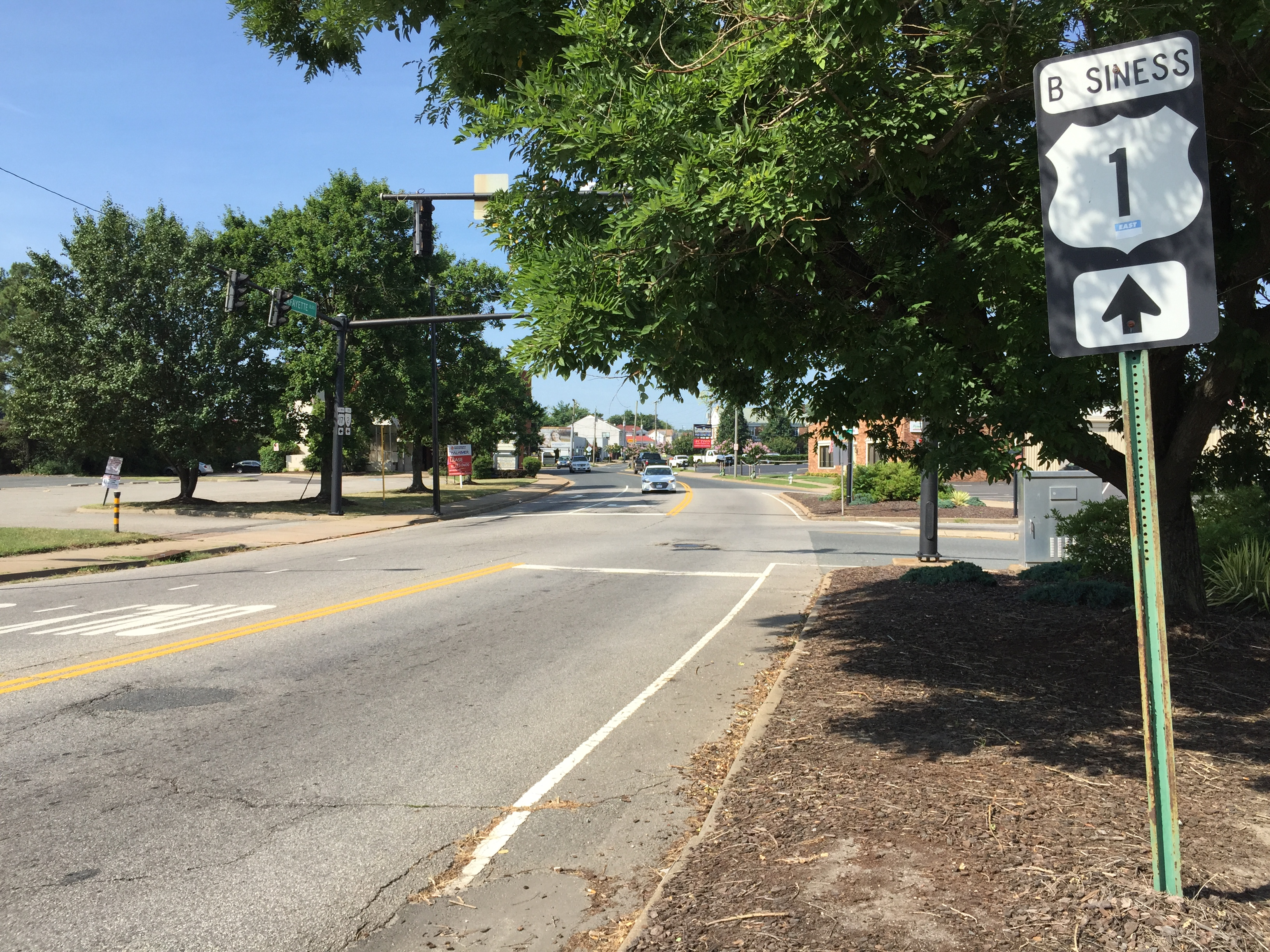 View south along U.S. Route 1 Business (Lafayette Boulevard) at Kenmore Avenue in Fredericksburg, Virginia